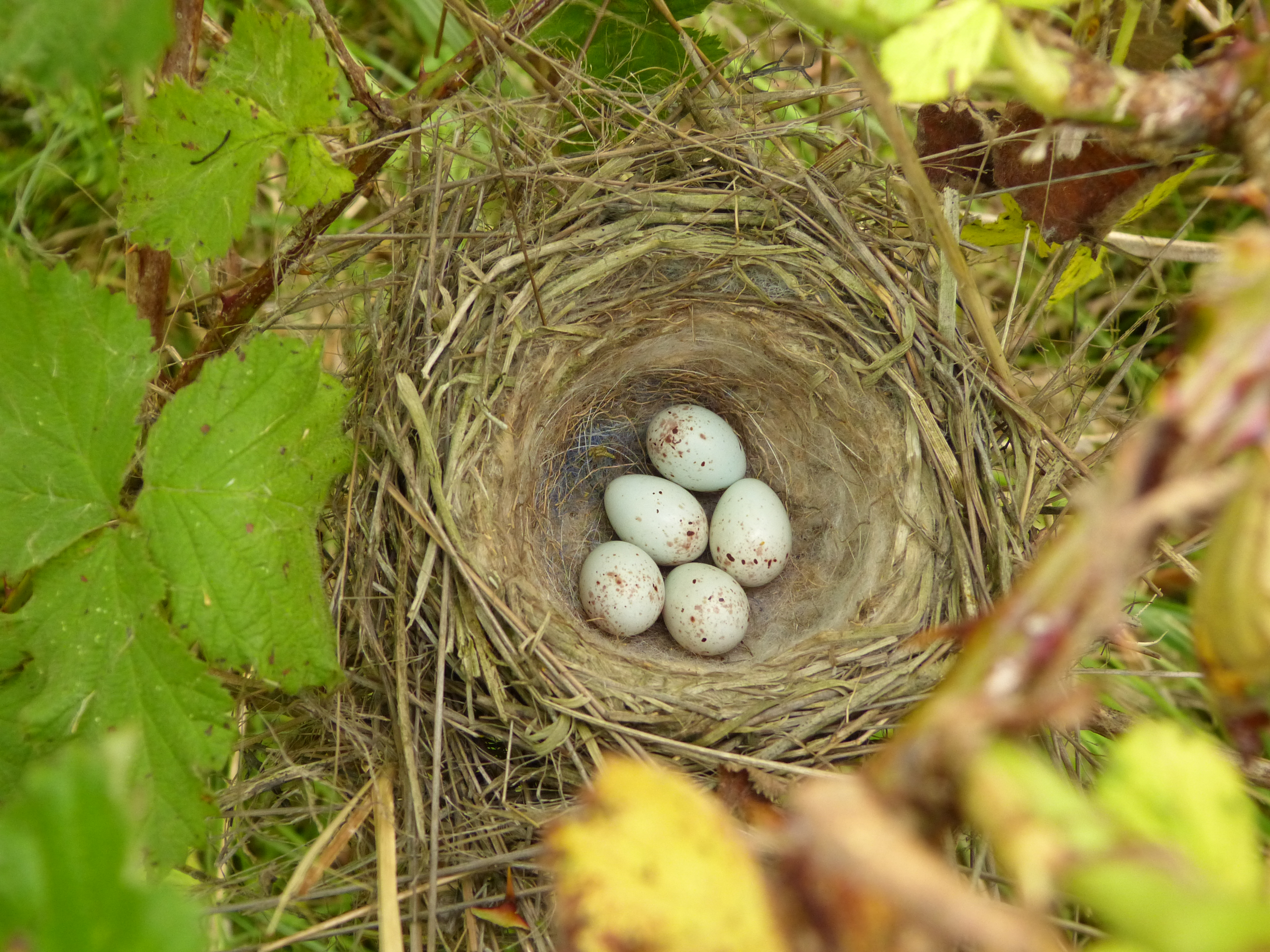 Latin name Carduelis cannabina Family Finches (Fringillidae) Overview A small, slim finch, widely distributed, and once very popular as a cage bird... ... Where to see them While widespread across the UK, there are concentrations along the east coast... When to see them All year round. What they eat Seeds and insects.